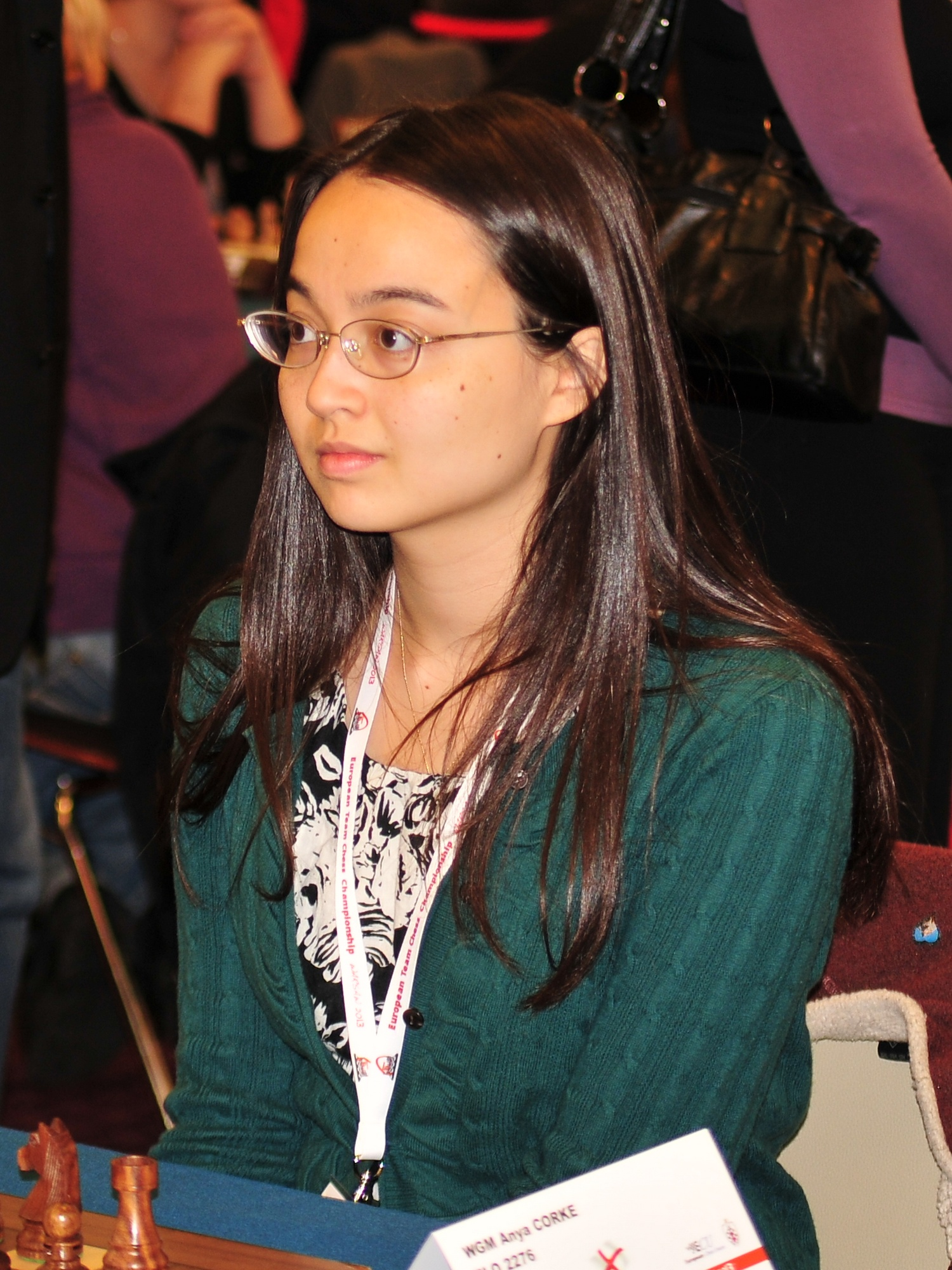 WGM Anya Corke, European Chess Team Championship Warsaw 2013